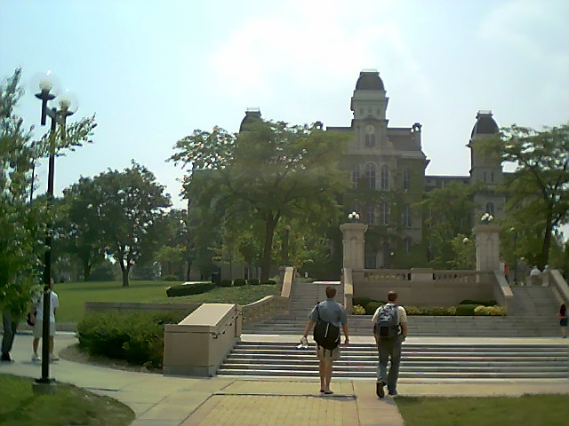 Syracuse University's Stairway to the Hall of Languages. This is where the monument to the students and faculty lost on Pan Am Flight 103 is located. Taken by me in August, en:2003. -- Feel free to use as you wish.